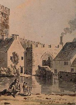 Cropped image of 'The West Gate, Cardiff', by Paul Sandby, late 18th century